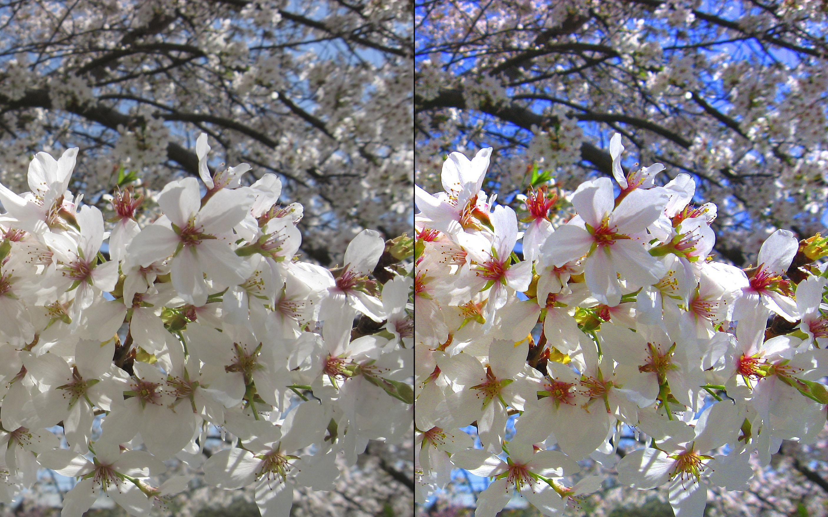 User:Sbn1984/Image template